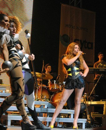 Greek-Swedish singer Elena (Helena) Paparizou performing on the Fisika Mazi Tour in Athens on 29 June 2010. Photo taken by Cropped for Wikipedia Camera: Nikon D3000 License on Flickr (2010-12-30): CC-BY-SA-2.0